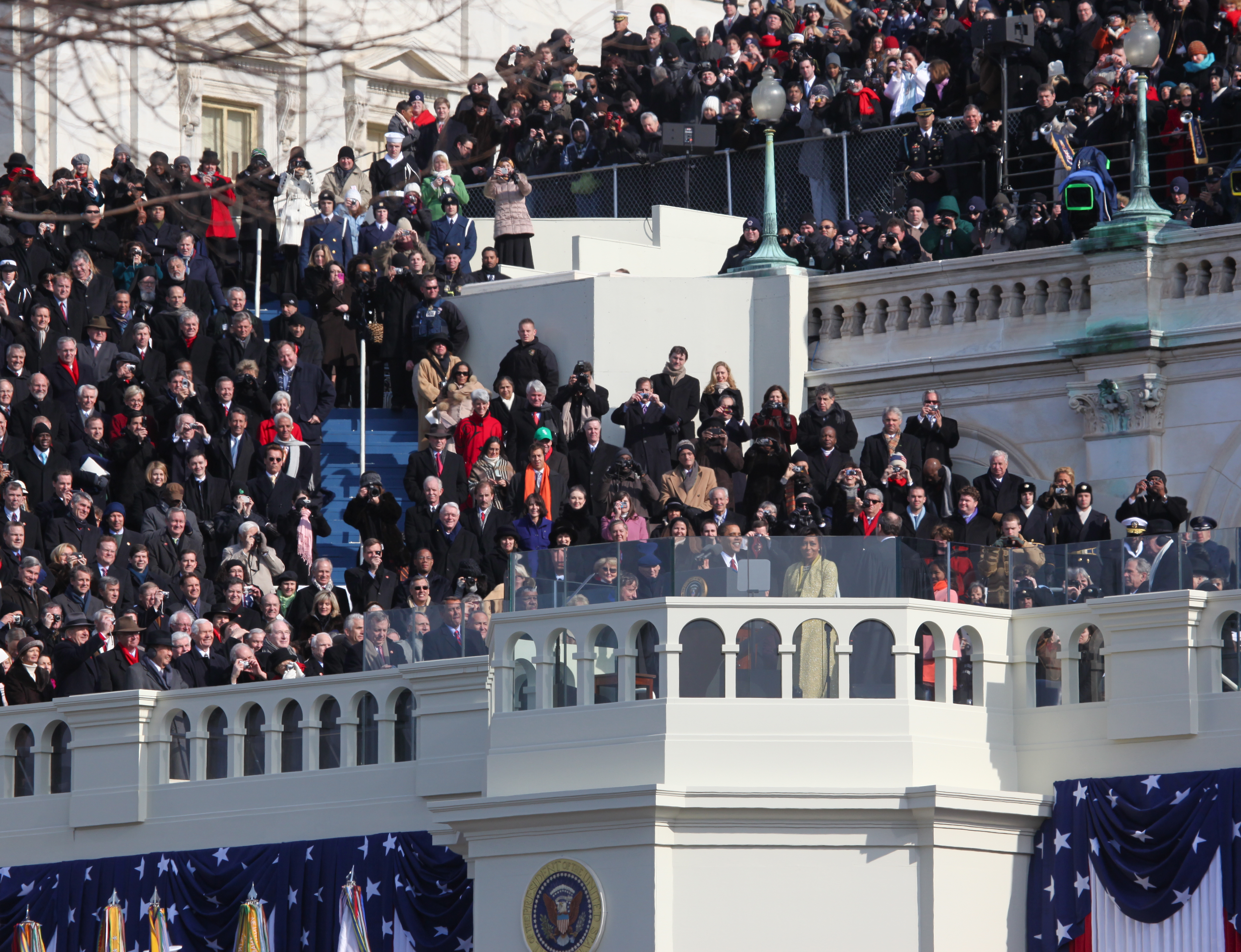 Barack Obama's 2009 presidential inauguration in Washington, DC.